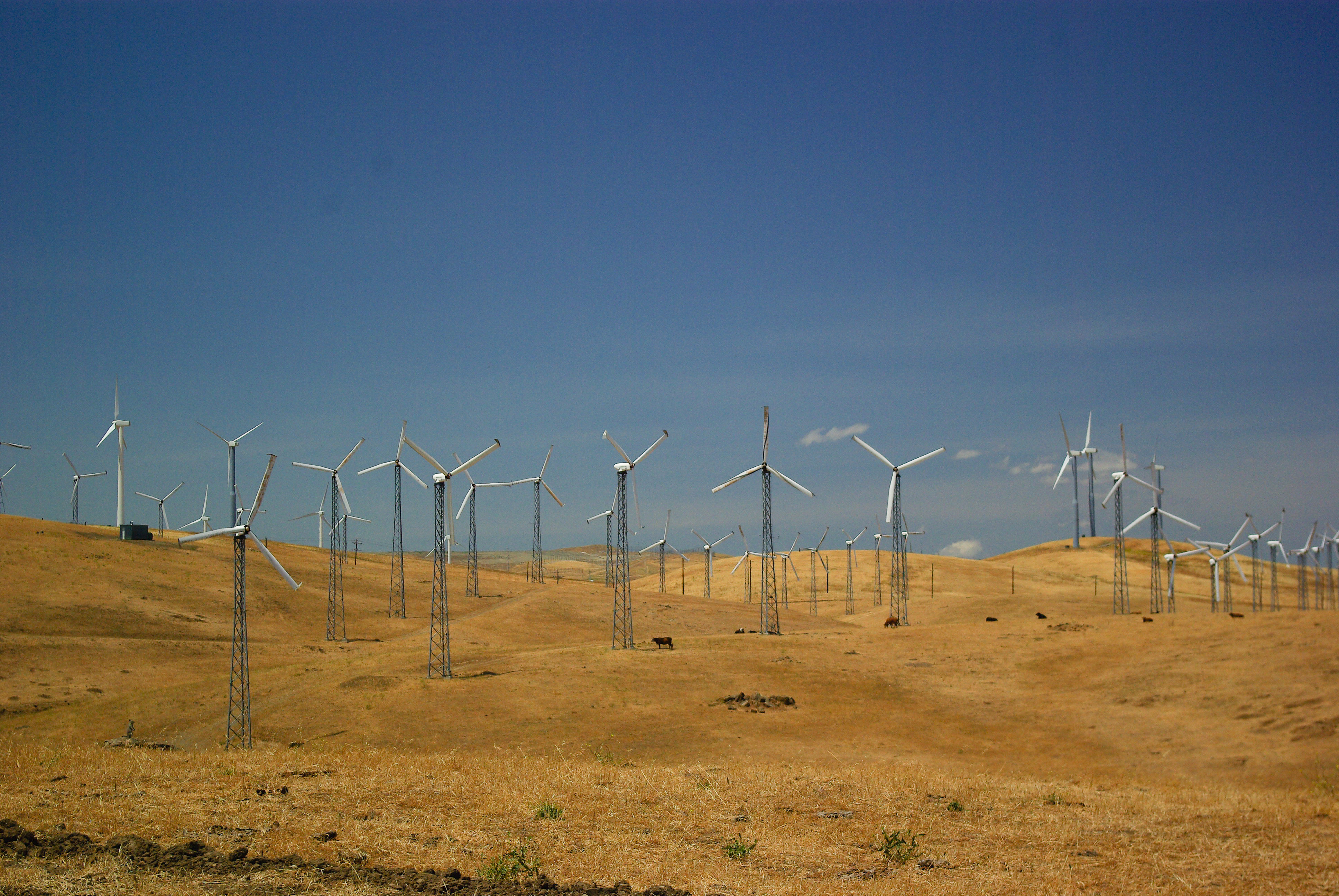 Altamont Pass Wind Farm